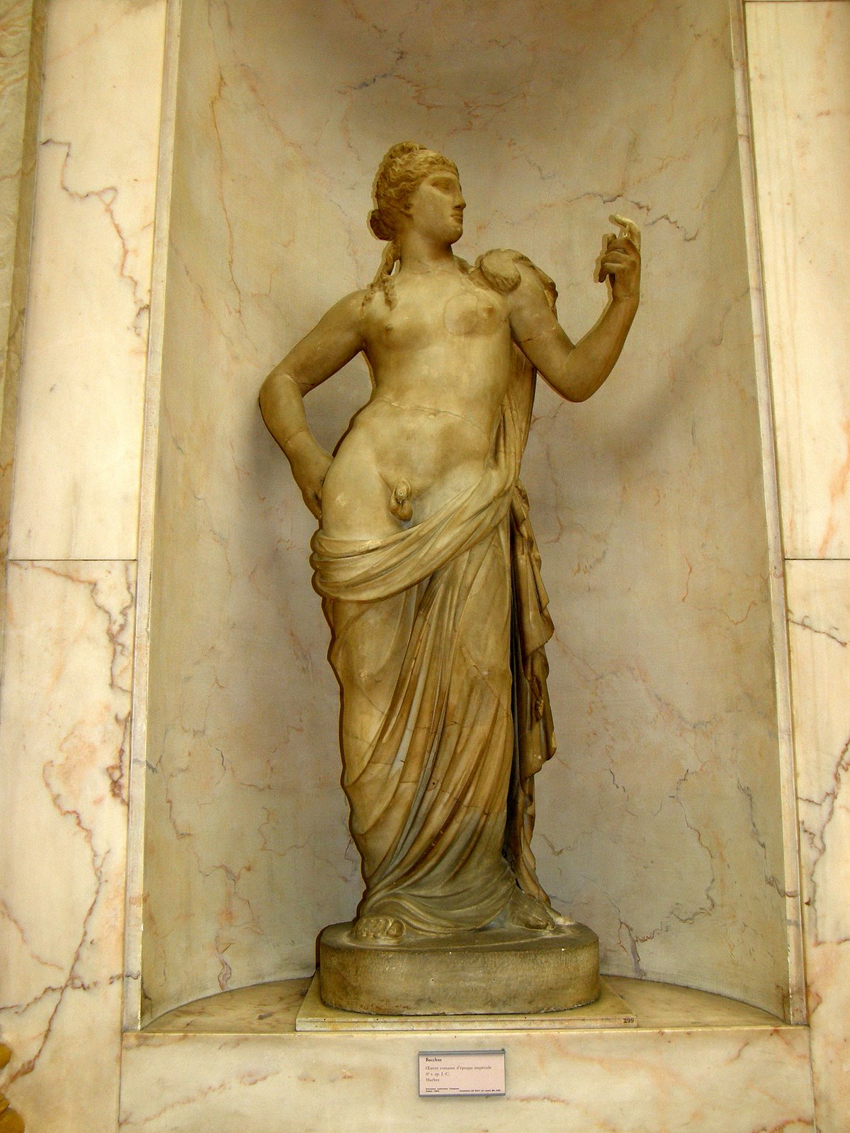 Bacchus, Roman Imperial (2nd century AD) Marble. Height 1.70 m. Former Campana collection. Purchased in 1863. Department of Greek, Etruscan, and Roman Antiquities.